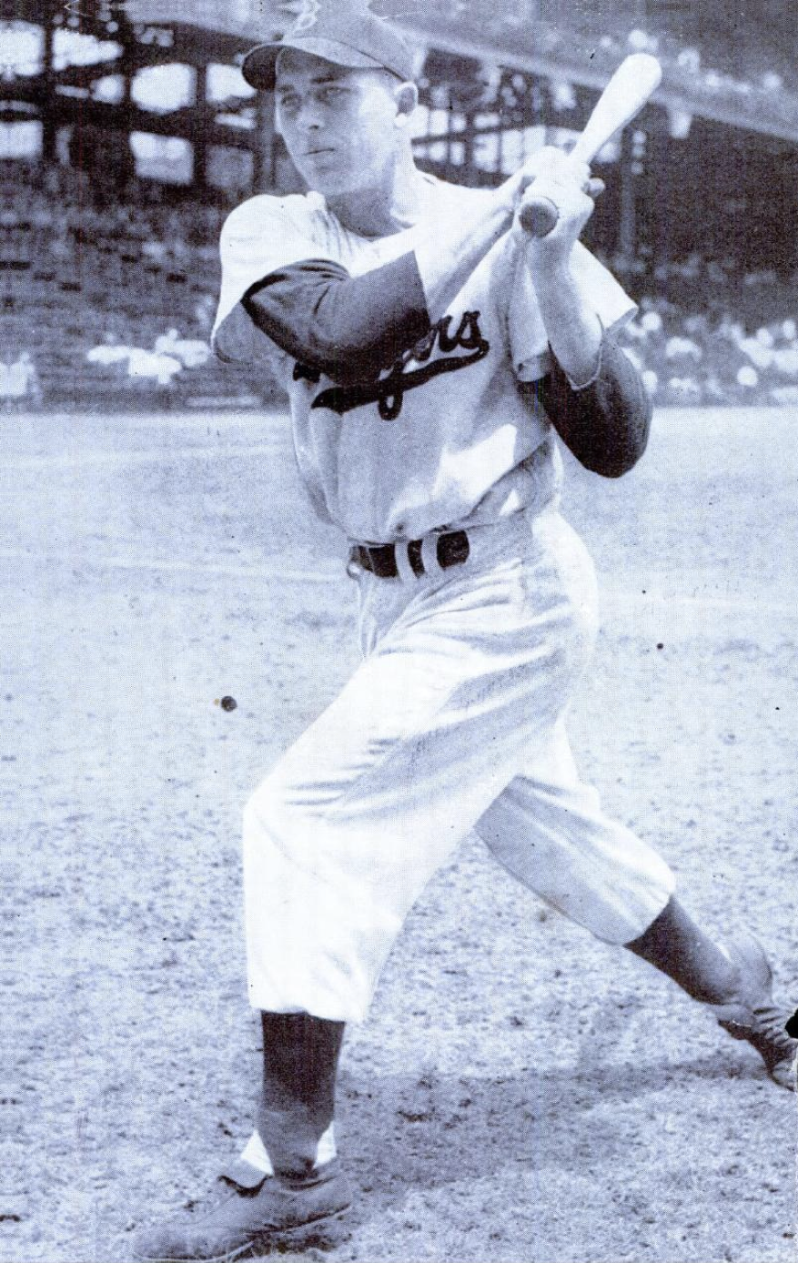 Brooklyn Dodgers first baseman Gil Hodges in a 1949 issue of Baseball Digest. Photo stitching by User:Dschwen.